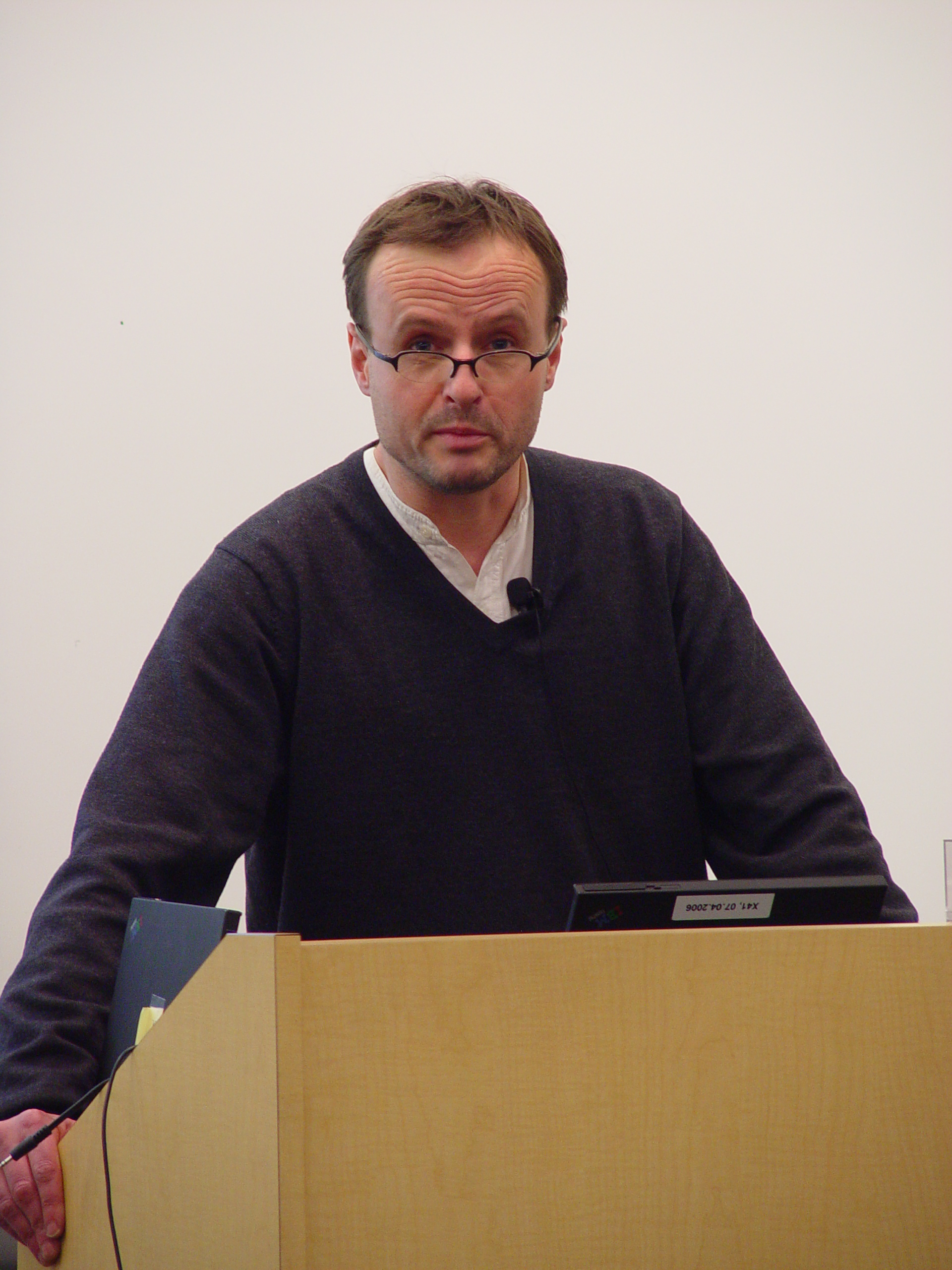 Håkon Wium Lie CTO of Opera & Founder of CSS